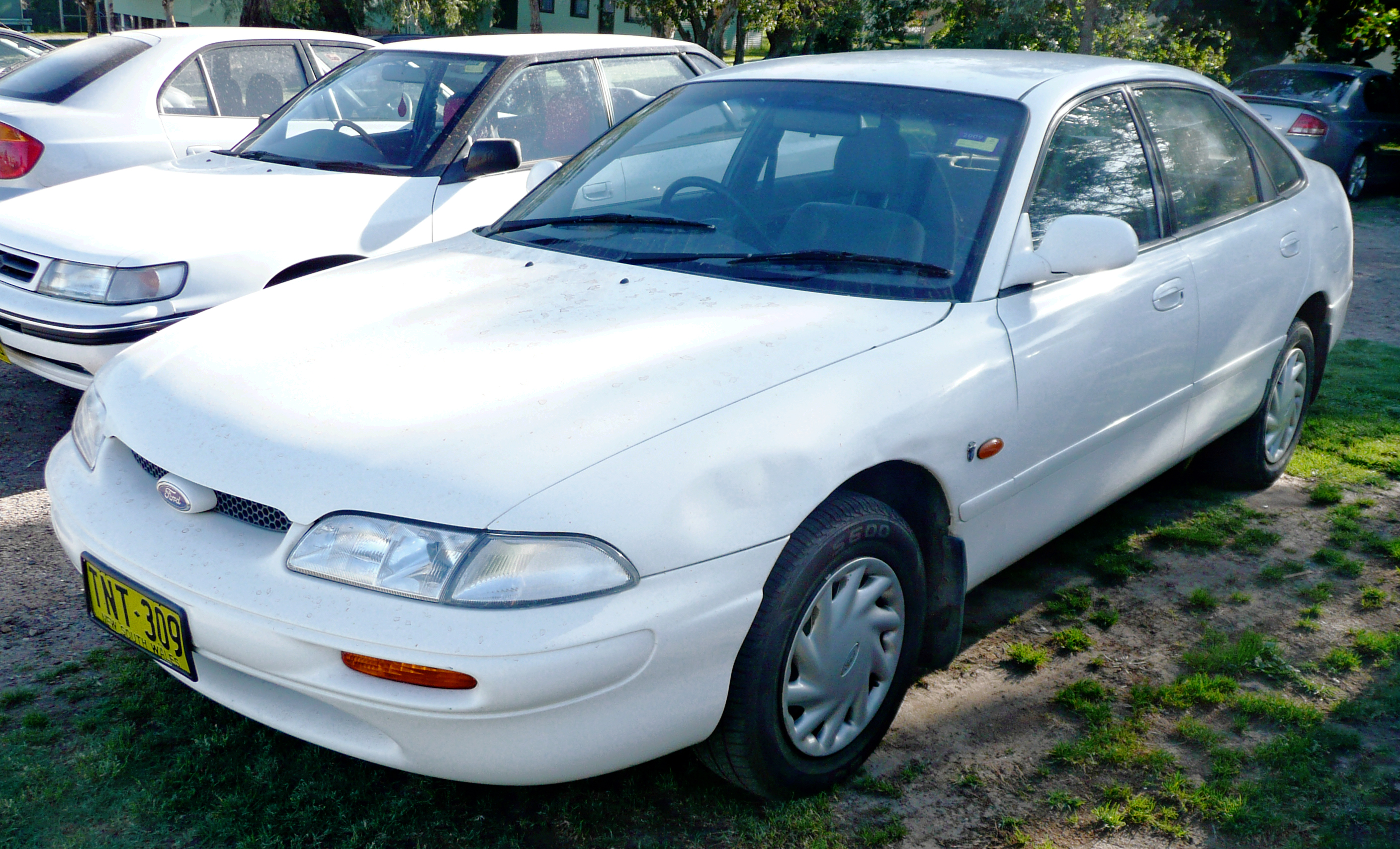 1994 Ford Telstar TX5 (AY) Ghia hatchback. Photographed in Sutherland, New South Wales, Australia.